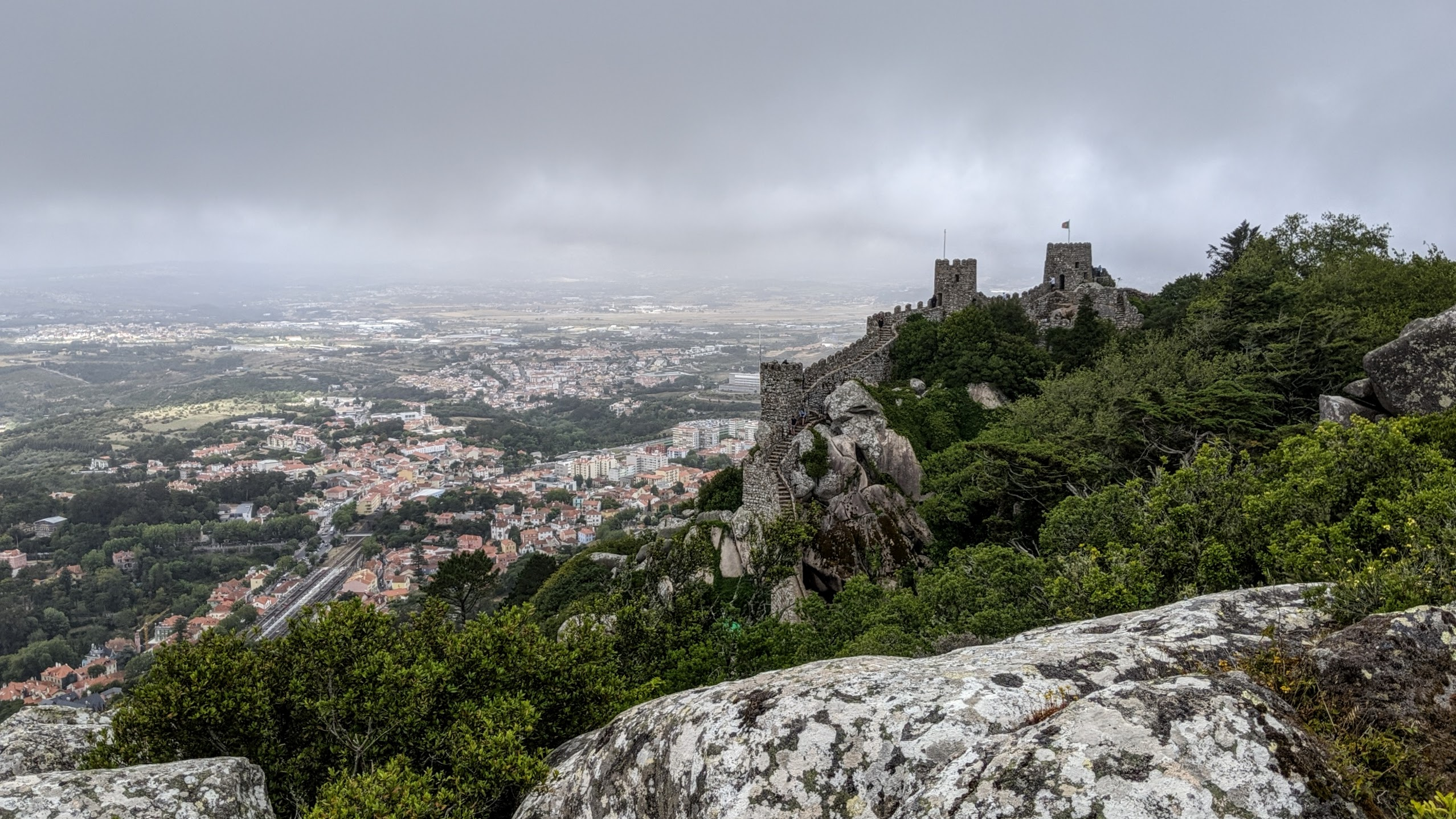 Sintra from Castle of the Moors, including the train station